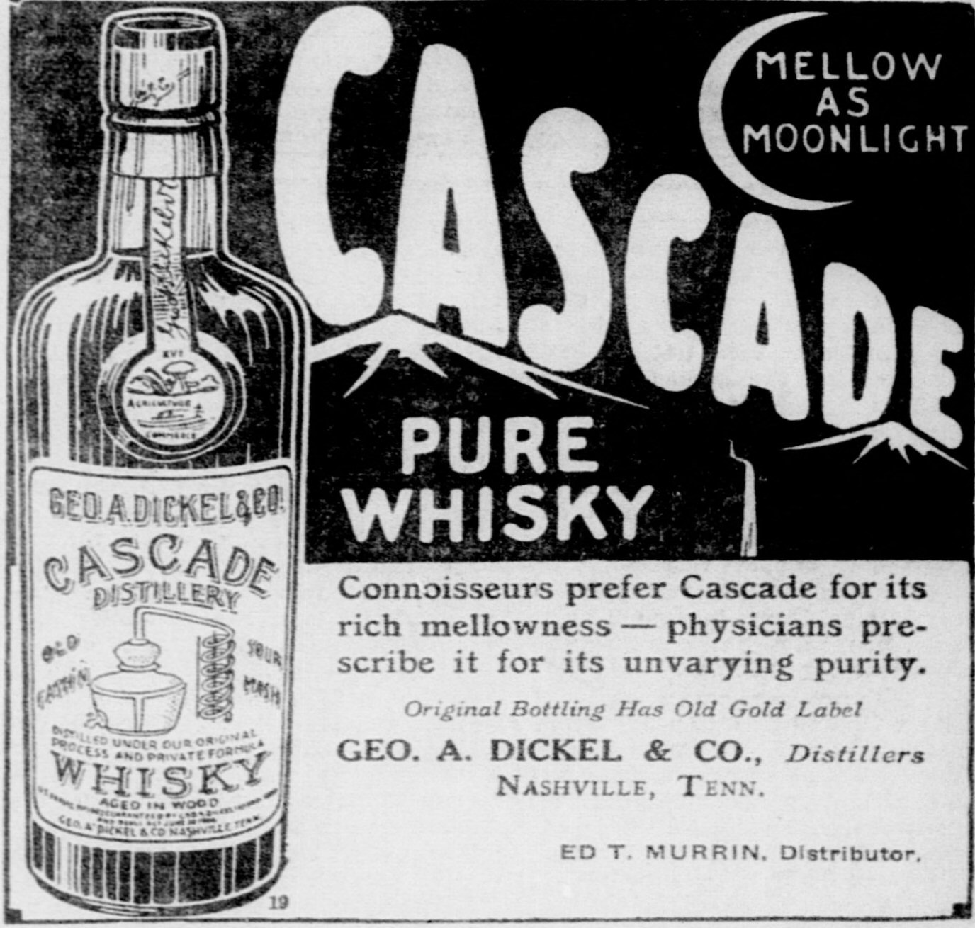 Ad for George Dickel's Cascade Whisky from a 1915 issue of the Rock Island Argus